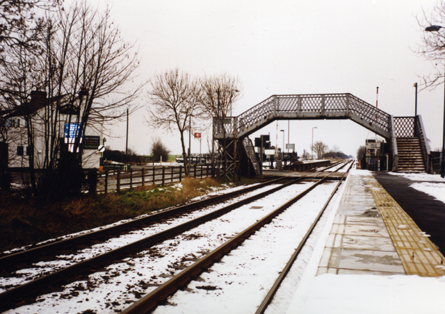 Habrough station (1999)